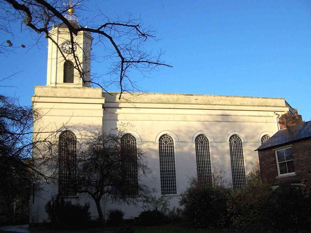 St. Leonard's Church, Bilston Church History